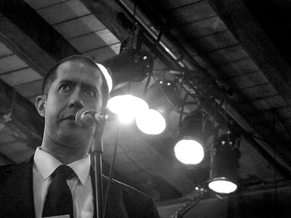 Ed Partyka in Aarhus, Denmark performing with Klüvers Big Band